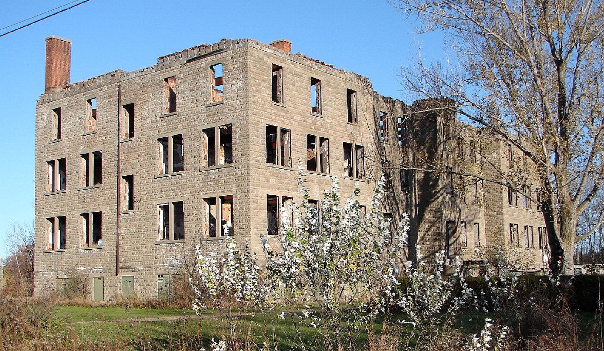 Remains of the St. Joseph Residential School, Spanish, Ontario, Canada